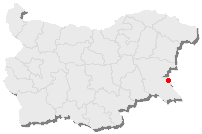 Map of Bulgaria, the red point is the position of Sozopol.